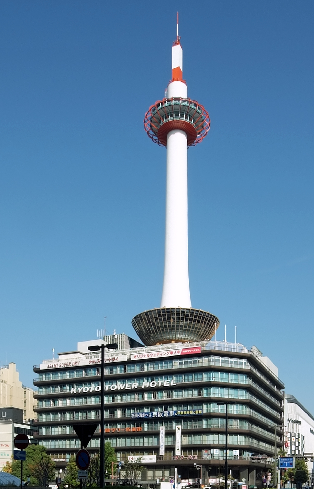 Kyoto Tower, Kyoto Japan, designed by Mamoru Yamada.